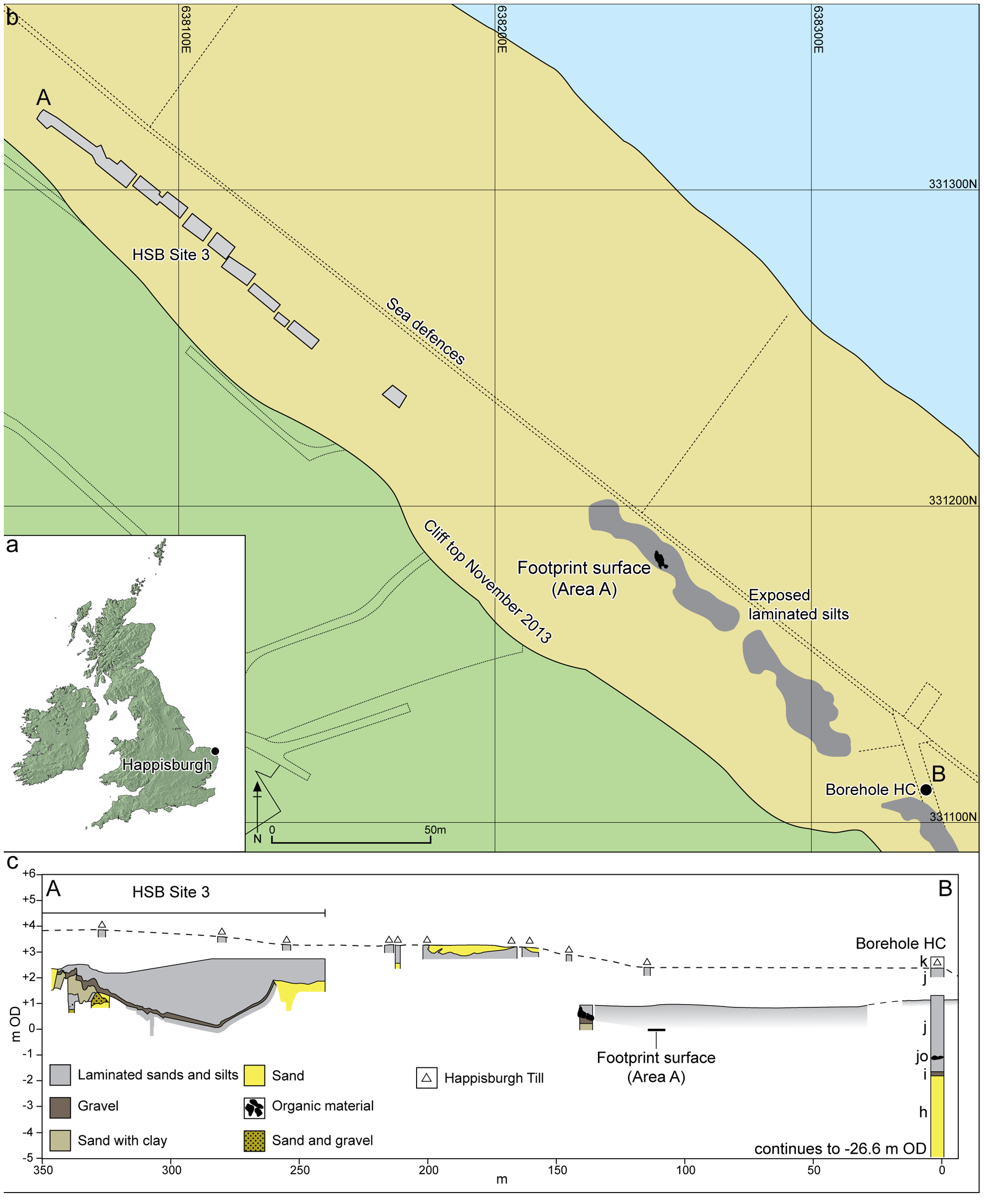 Figure 2. Location of Happisburgh. a. Map of UK showing location of Happisburgh; b. Plan of Happisburgh Site 3, exposed and recorded foreshore sediments, location of footprint surface and of borehole HC; c. Schematic cross-section of recorded sediments from Happisburgh Site 3 through to borehole HC showing stratigraphic position of footprint surface. Beds h–k are shown for borehole HC as recorded by West.